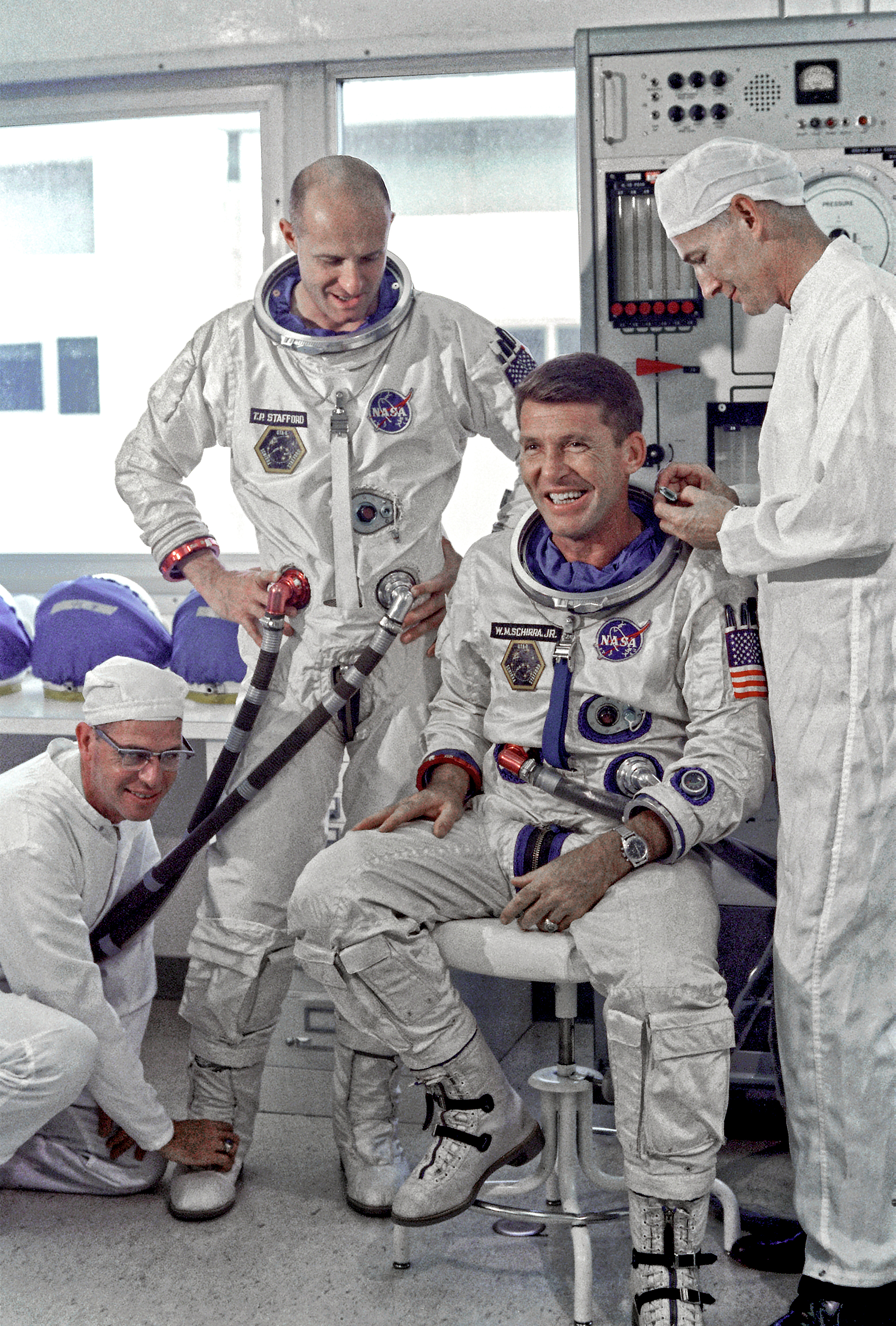 Astronauts Walter M. Schirra Jr. (seated), command pilot, and Thomas P. Stafford, pilot, Gemini 6 prime crew, go through suiting up exercises in preparation for their forthcoming flight. The suit technicians are James Garrepy (left) and Joe Schmitt.